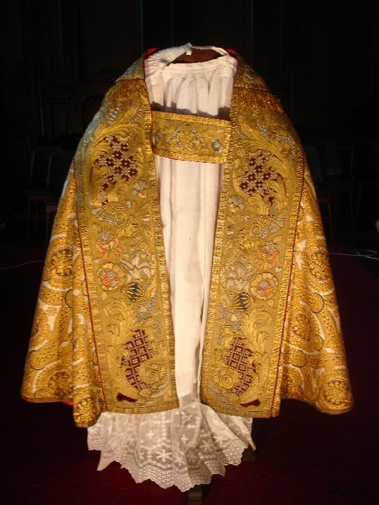 Cope 18th century flanders